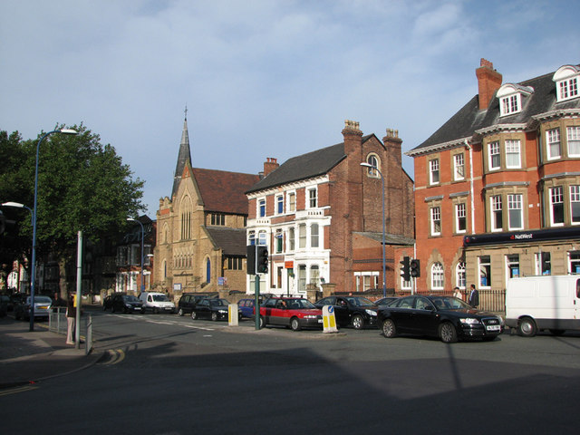 Gregory Boulevard, Hyson Green Showing the United Reformed Church and the NatWest Bank on the corner of Radford Road.